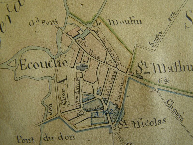 18th century map of Ecouche